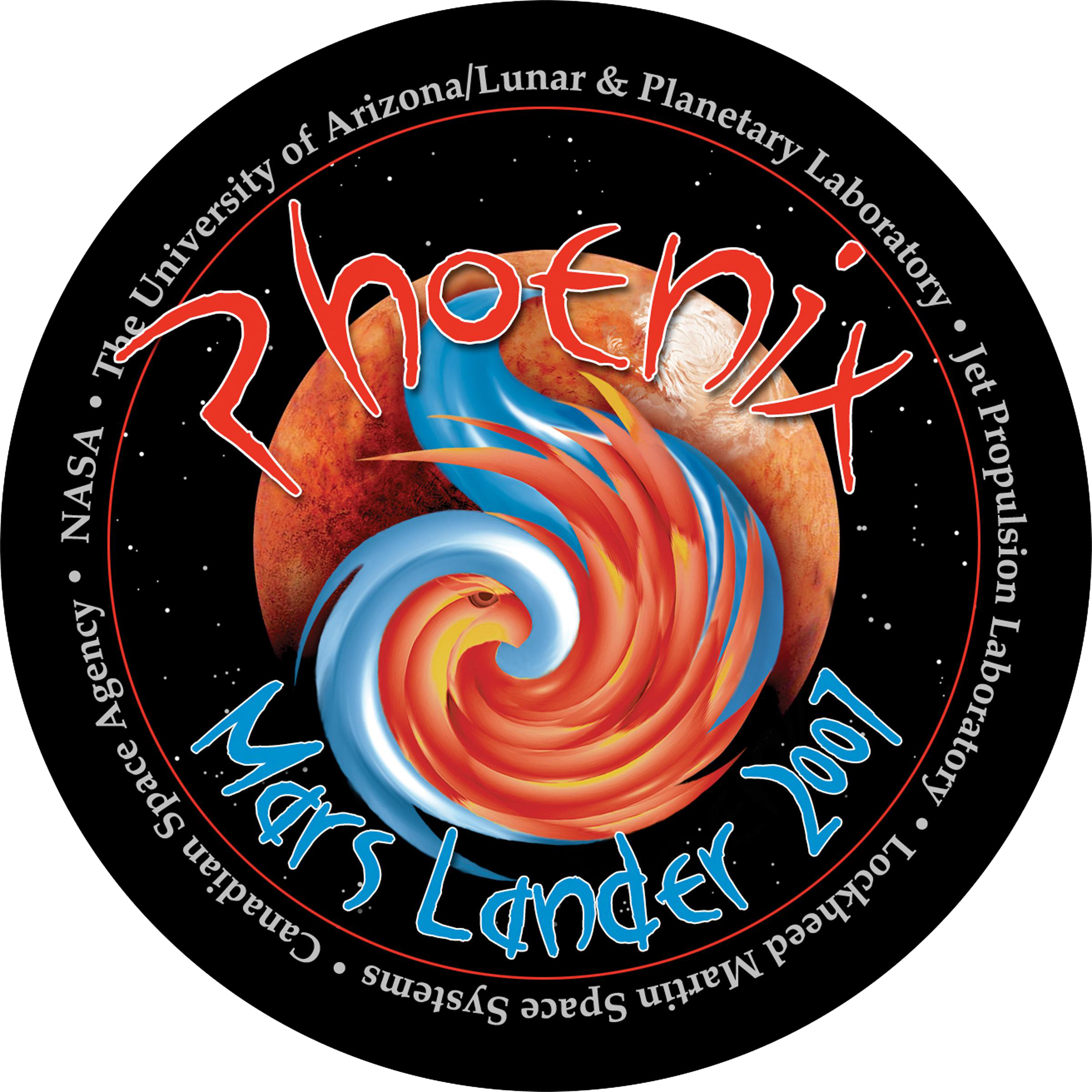 The official Phoenix Mars Lander Mission sticker, designed by Principal Investigator Peter Smith, shows off the Phoenix logo created by Isabelle Tremblay. It also displays all of the mission partners around the border.